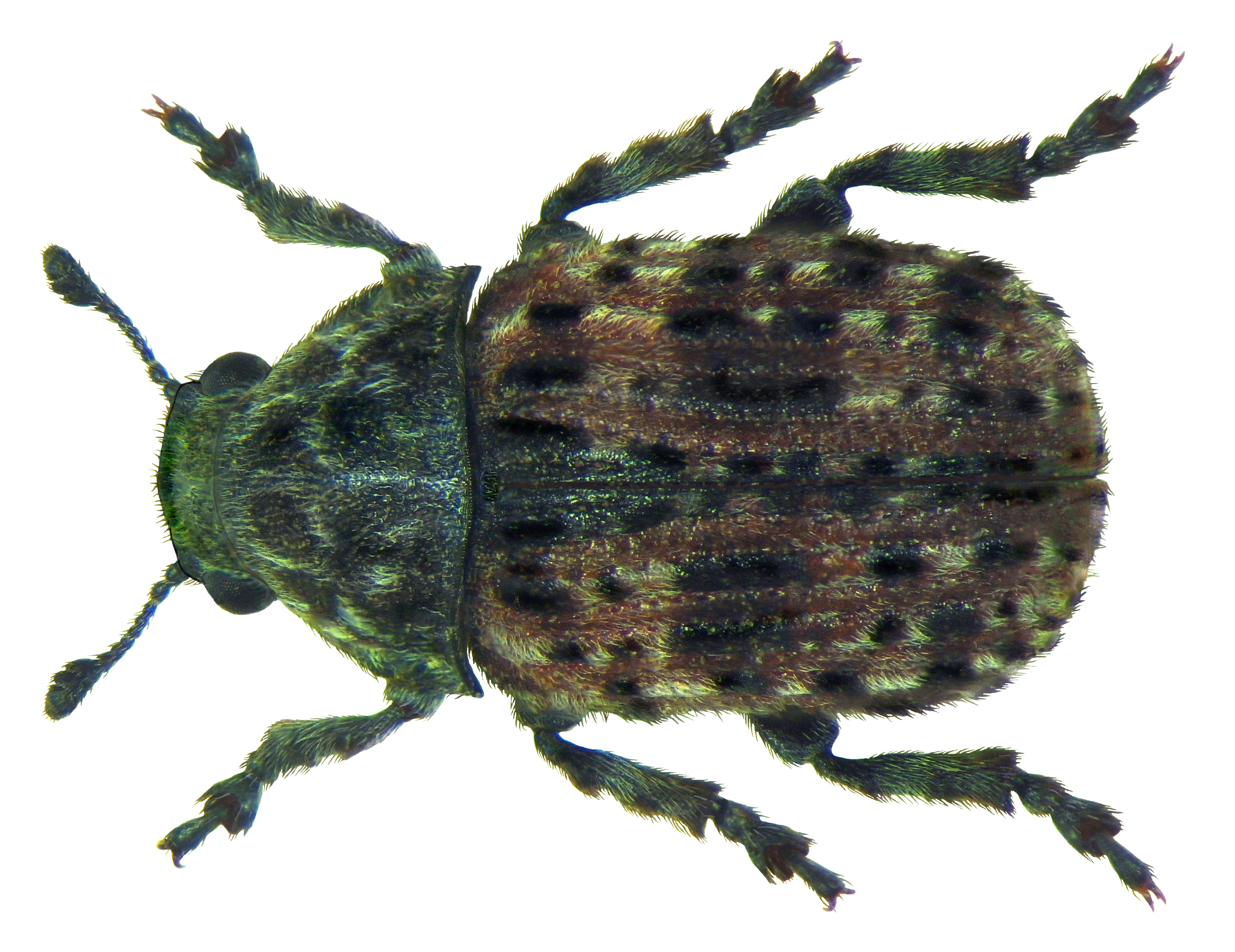 Family: Anthribidae Size: 2-4 mm Origin: Europe Ecology: carnivorous larvae of leaf and scale insects, imagines on deciduous trees Location: England, Martteburg, 8.VI.1929 P.Harwood coll Pres 1957 by Mrs. Harwood data under mount 5 - 1958 Coll. Museum Oxford Photo: U.Schmidt, 2012